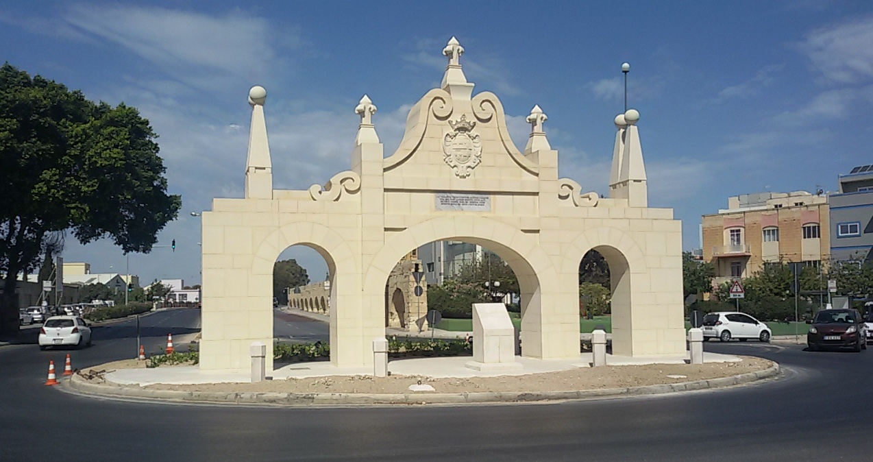 Santa Venera-facing side of the Wignacourt Arch (aka. Fleur-de-Lys Gate)